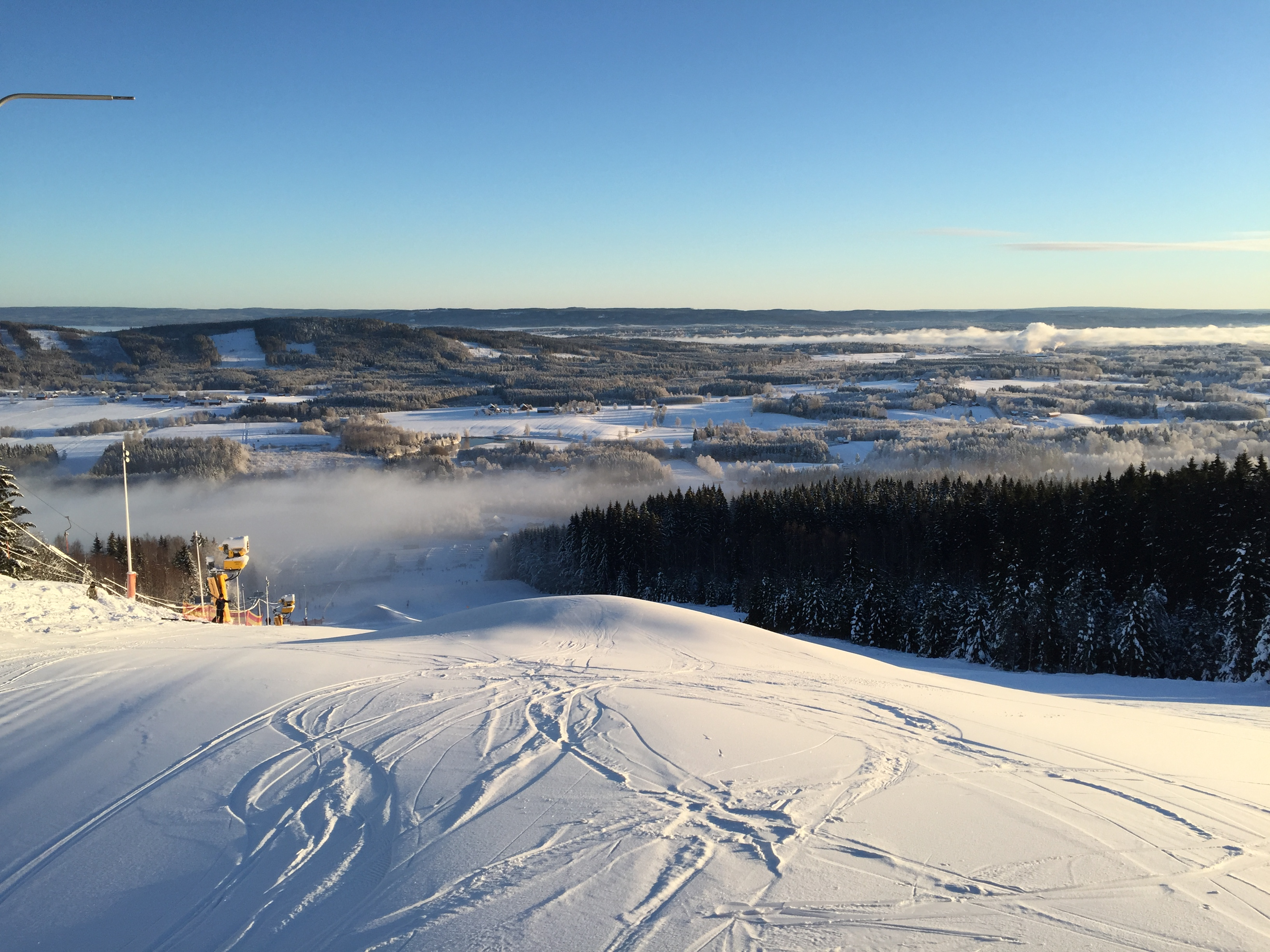 Wiew from the top of the slope Ekeby in Ski Sunne ski resort.